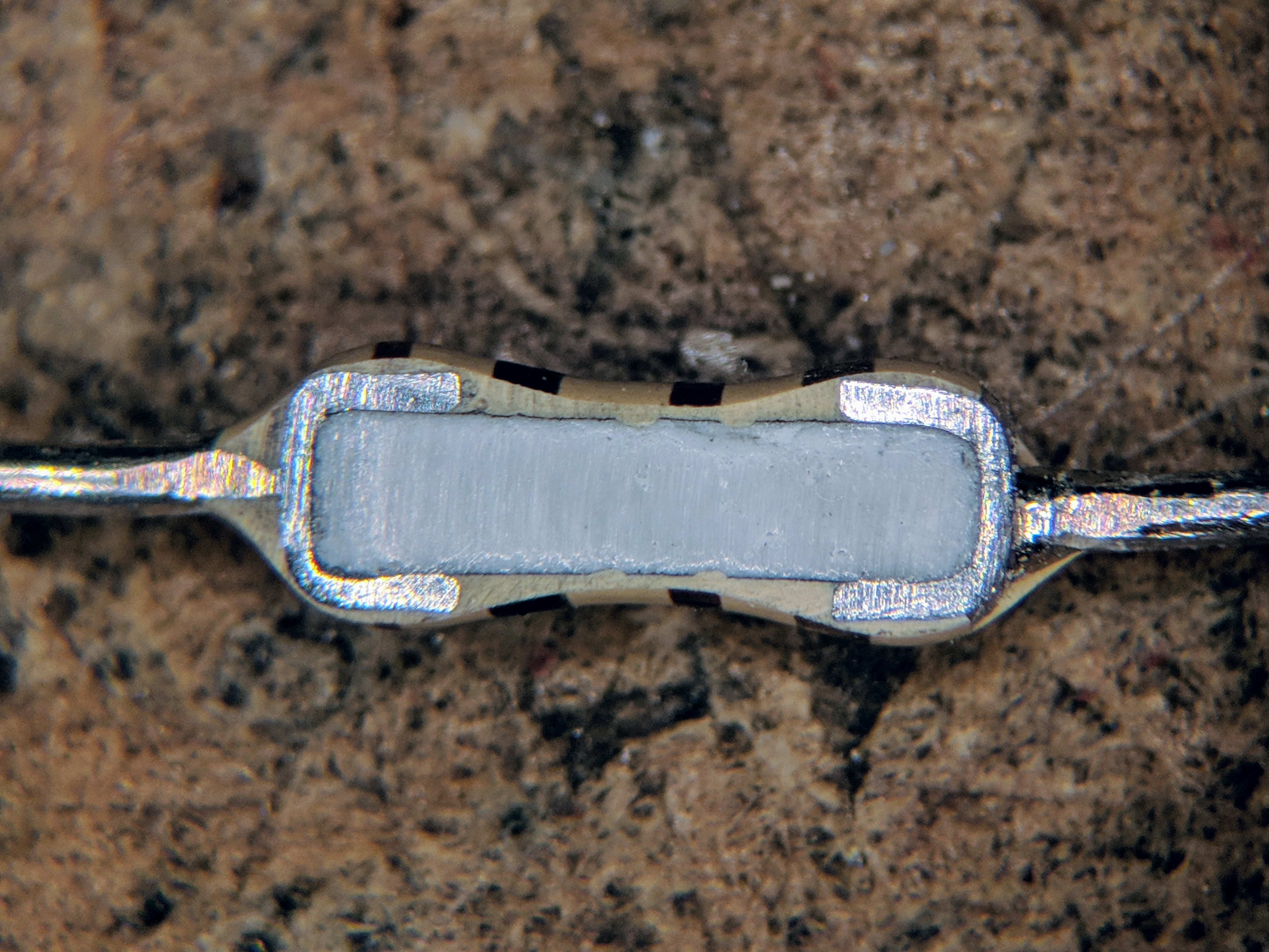 This is a cross section of a common 1/4 watt 5% axial leaded carbon film resistor.